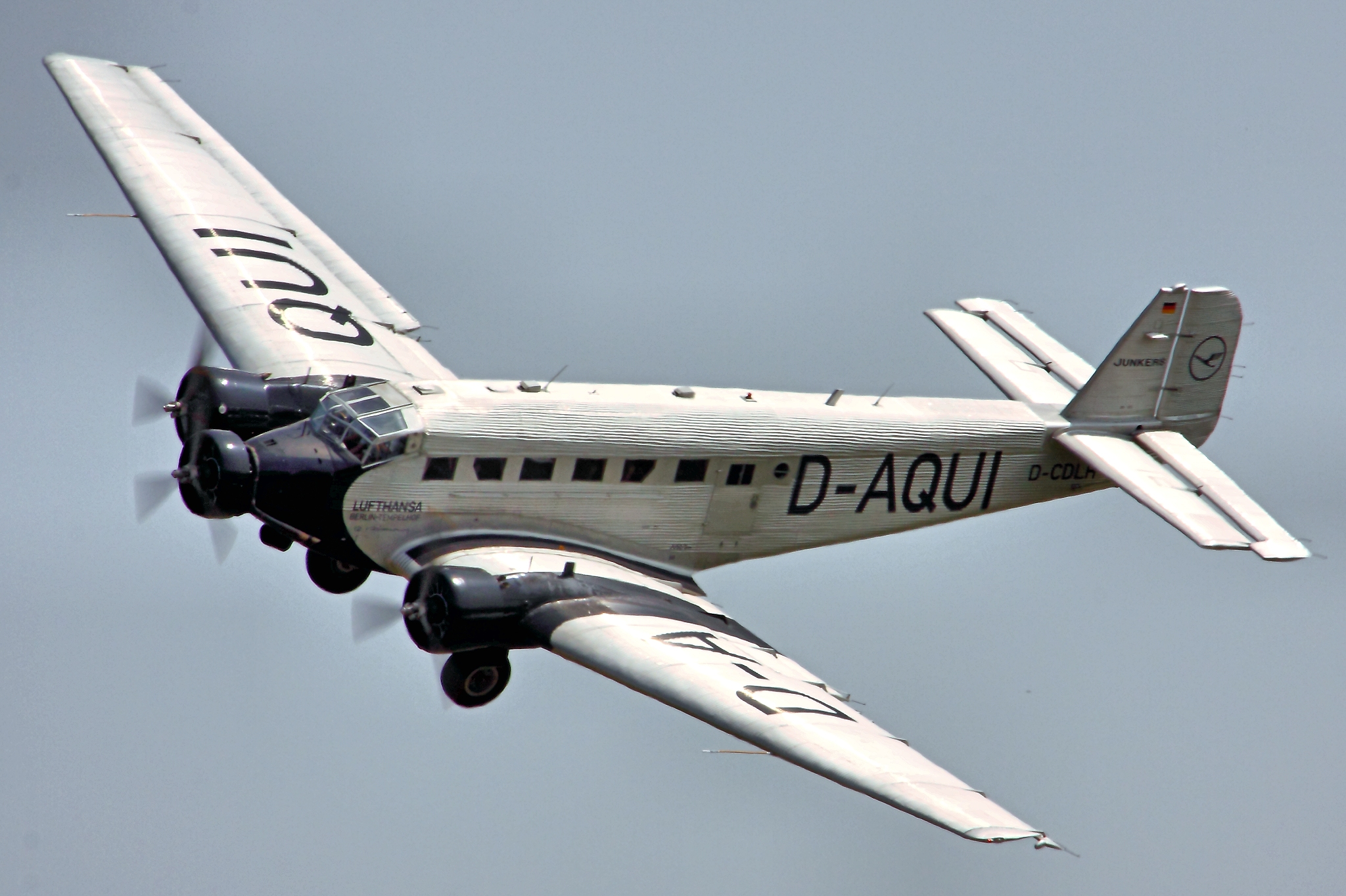 JU52 - Flying Legends 2013 Arrivals Day